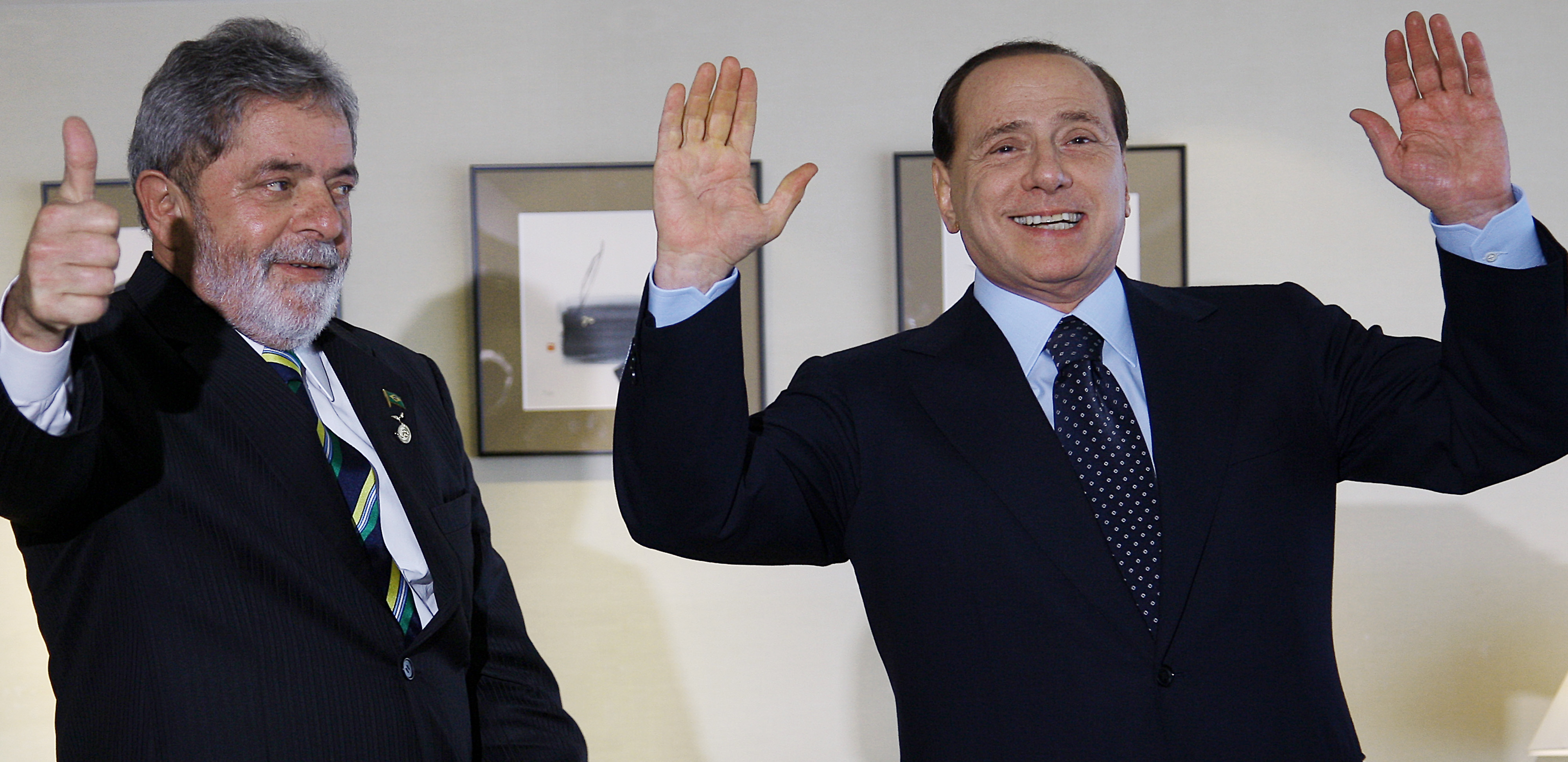 President Luiz Inácio Lula da Silva met President of the Council of Ministers Silvio Berlusconi at the Windsor Hotel Tōya Resort and Spa in Tōyako Town, Abuta District, Hokkaidō on July 9, 2008.